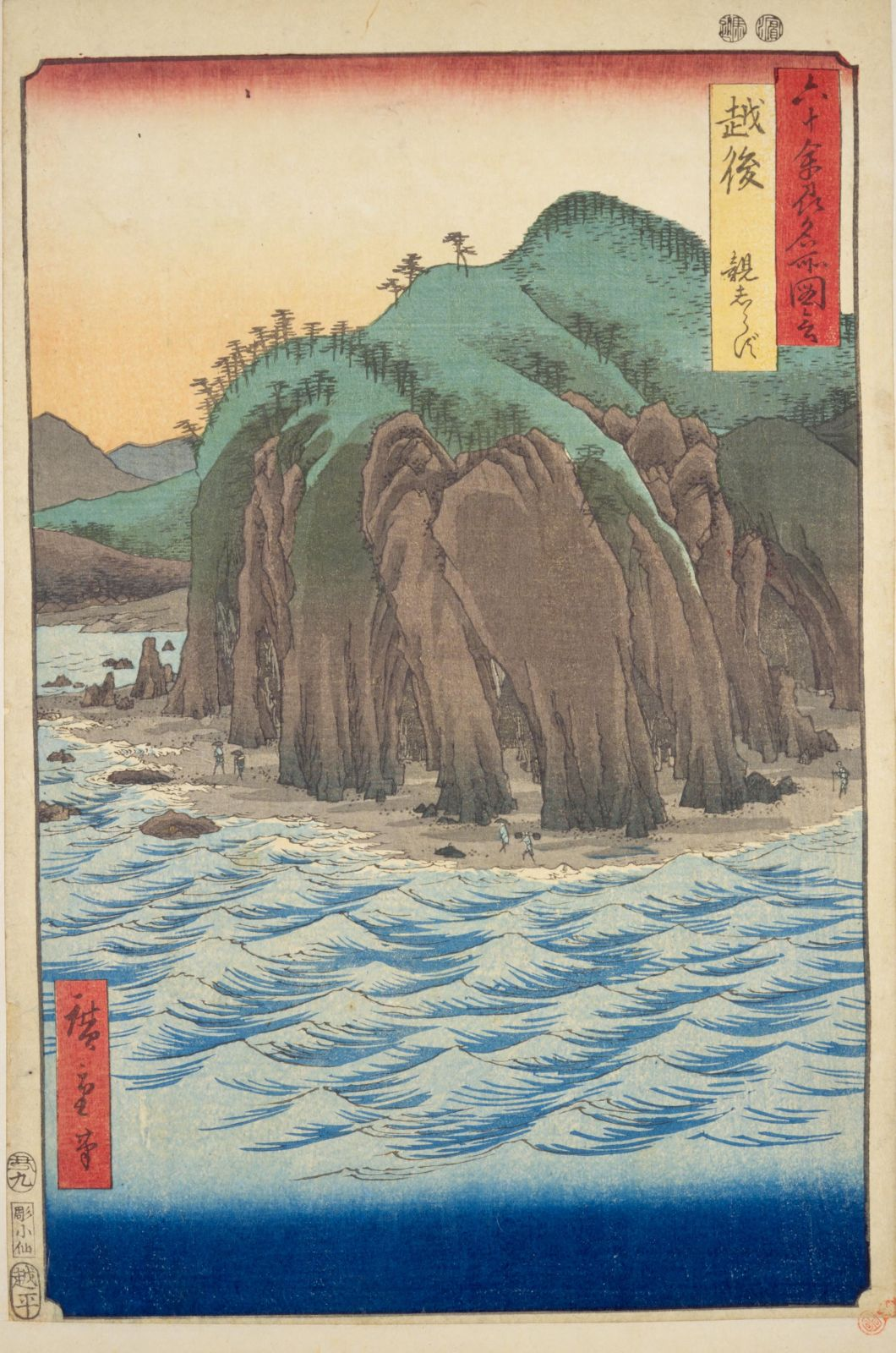 Part of the series Famous Places in the Sixty-odd Provinces, No. 35 (Hokurikudō group)